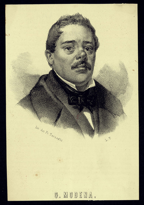 Portrait of Gustavo Modena, actor (1803-1861).